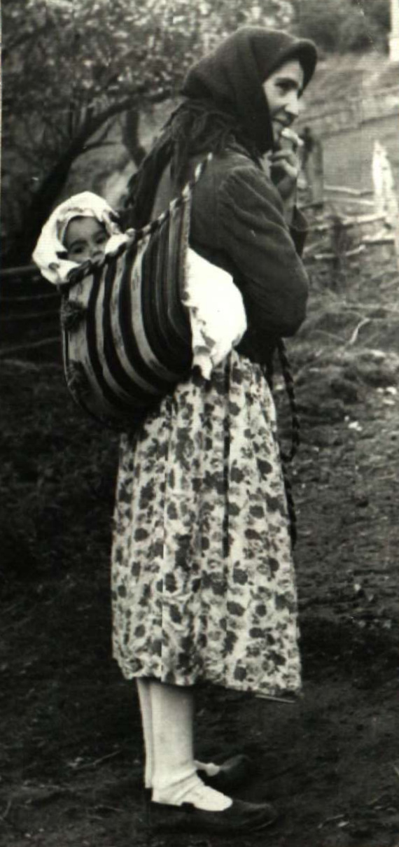 Babyak, Bulgaria